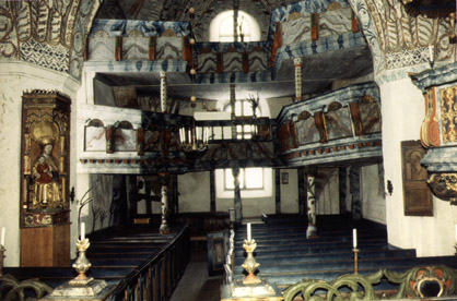 a view of Ytterlännäs Old Church, Ångermanland, Sweden, looking westwards